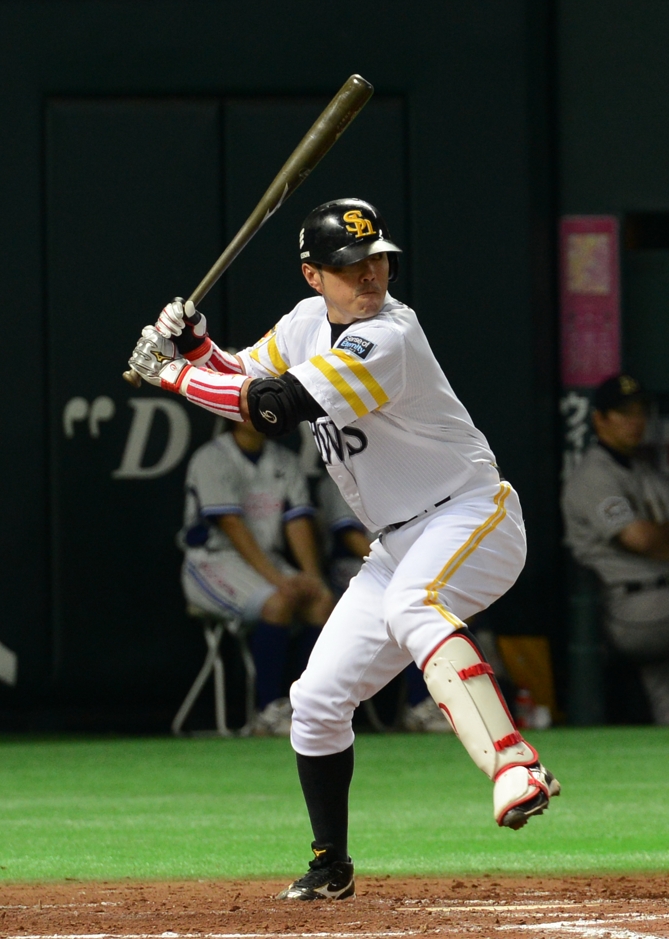 Hiroki Kokubo, infielder of the Fukuoka SoftBank Hawks, in final at-bat of his career, at Fukuoka Dome